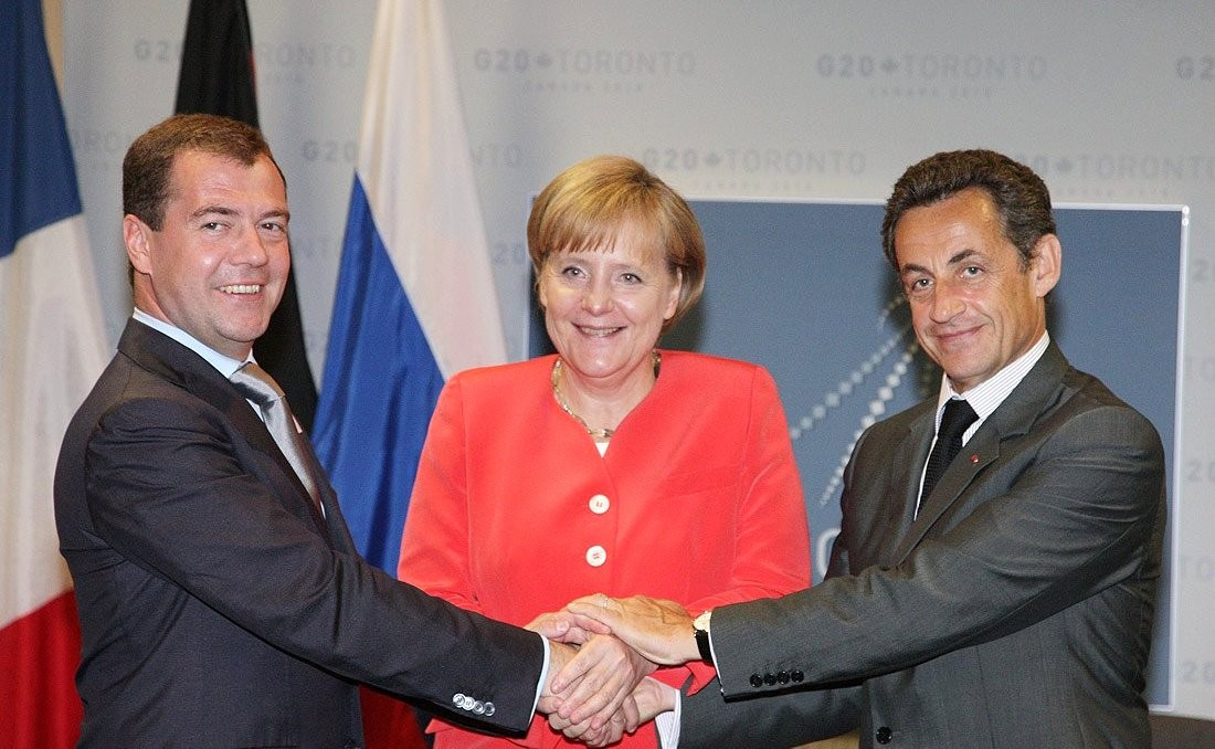 With Chancellor of Germany Angela Merkel and President of France Nicolas Sarkozy [President of Russia Dmitry Medvedev at G-20 summit in Toronto]